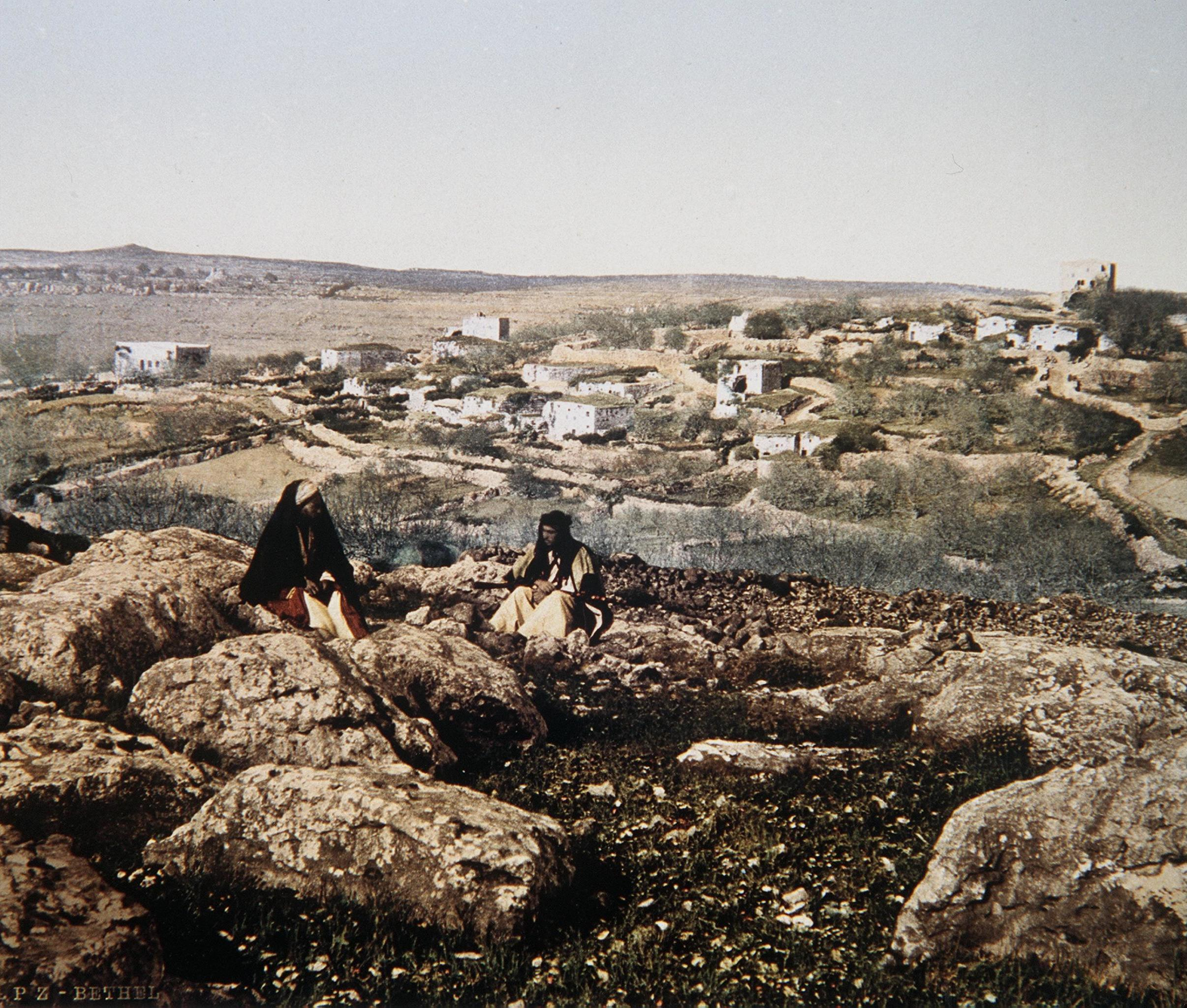 COLOR PHOTO FROM THE LATE 19TH CENTURY TAKEN BY FRENCH PHOTOGRAPHER, BONFILS, DEPICTING THE BET EL AREA NEAR JERUSALEM. צילום צבע מסוף המאה ה 19 פרי מצלמתו של הצלם הצרפתי בונפיס. בצילום, נוף כללי של בית אל, ליד ירושלים.